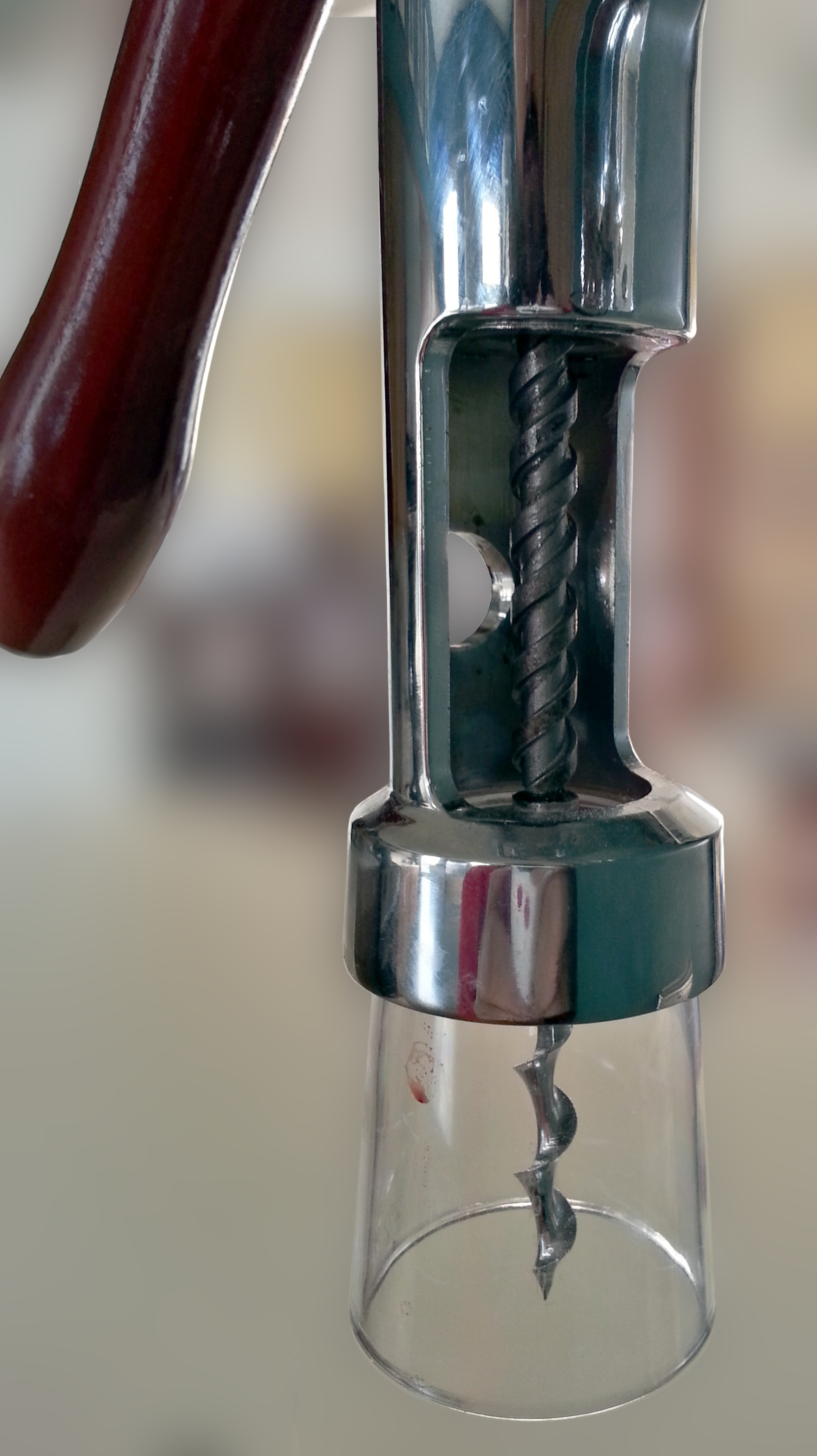 Detail of wall-mounted corkscrew. After the bottle is opened, the cork is automatically removed from the corkscrew and falls out the side.